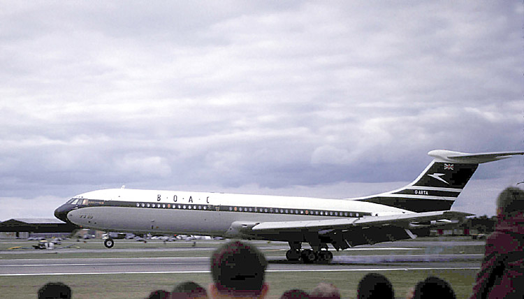 Vickers VC-10 (G-ARTA) somewhere in southern England (information now lost). Update: Photograph of G-ARTA believed to be taken at Farnborough International Airshow, early- to mid- Sixties.